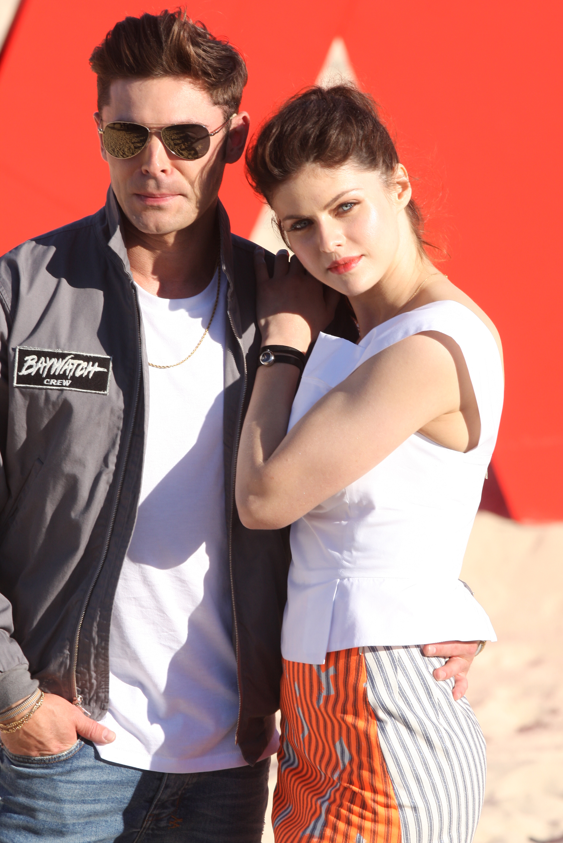 Zac Efron and Alexandra Daddario at the Baywatch launch